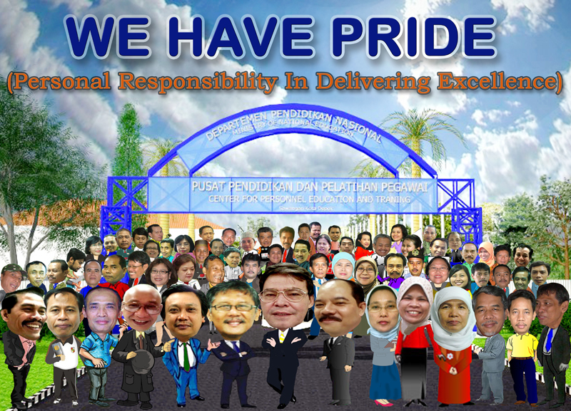 Pusdiklat staff picture.